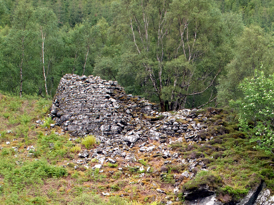 Dun Grugaig